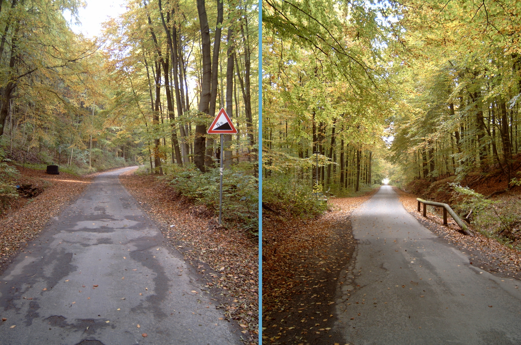 "Deister", "Jägerallee" between "Springe" and "Deister"-ridge, left image: direction "Springe", right image: direction "Deister"-ridge